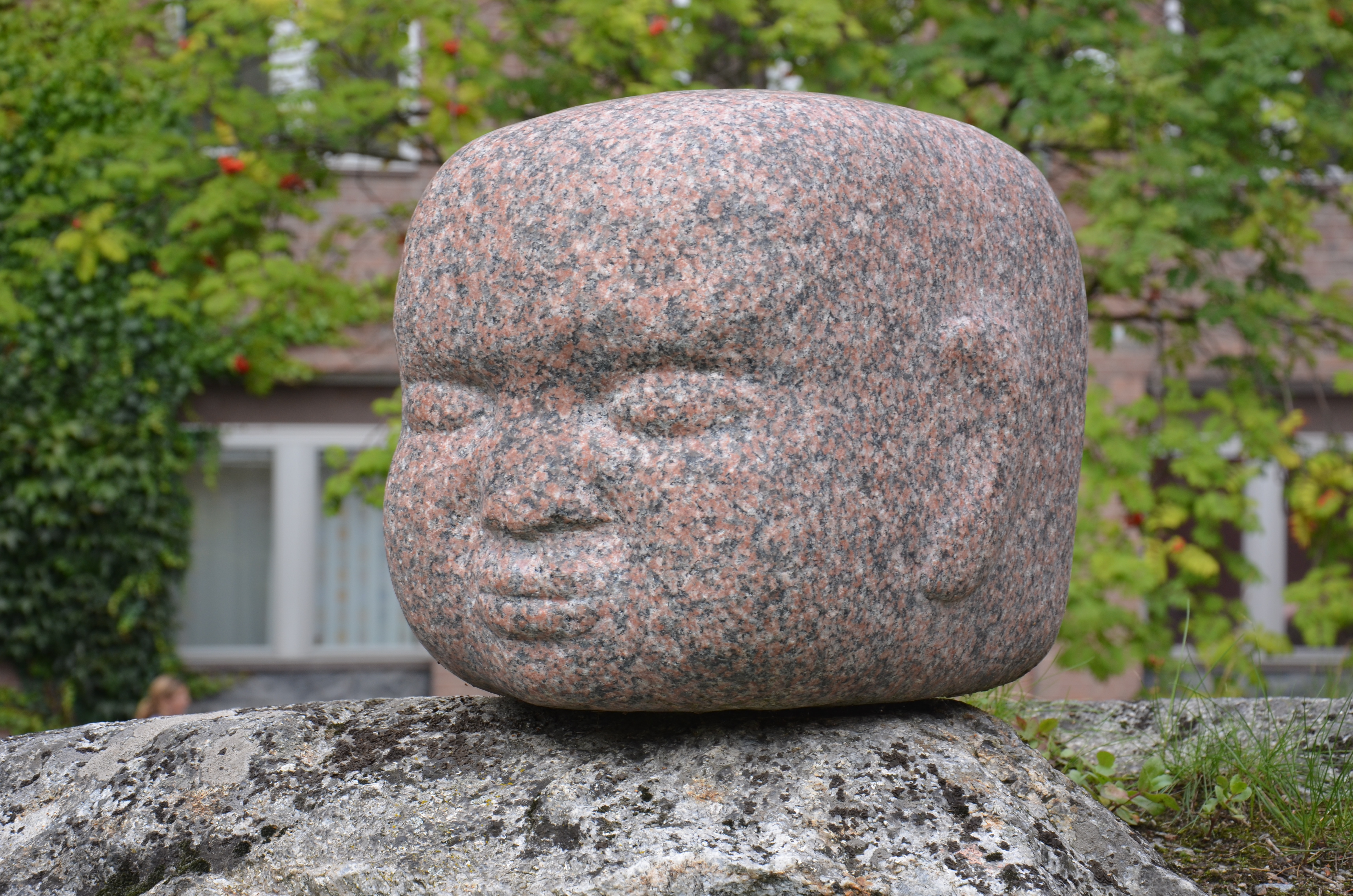 Alf Olssons Barnhuvud, granit, Karolinska sjukhusets park, Solna